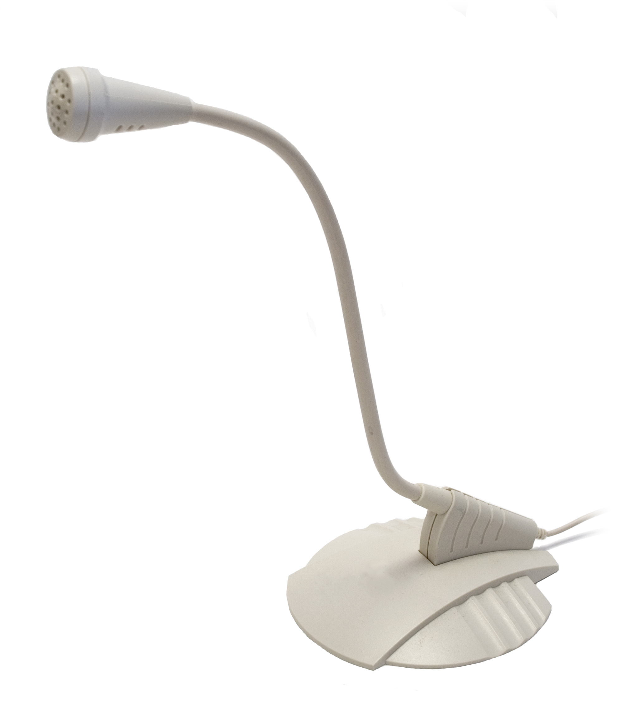 A gooseneck microphone from a desktop computer.